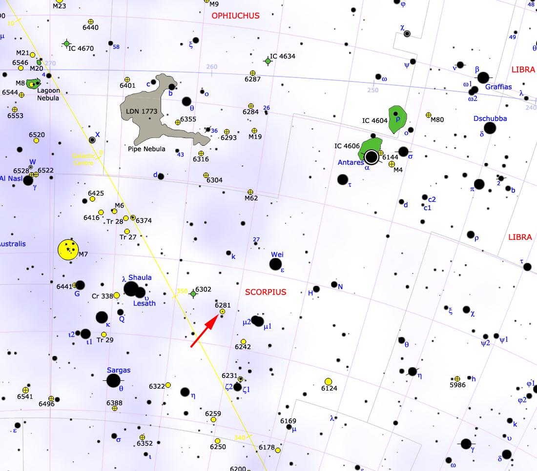 Map of NGC 6281